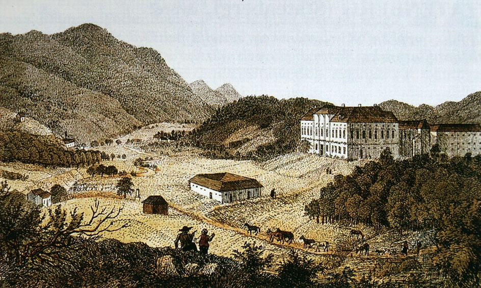 Štatenberg Mansion